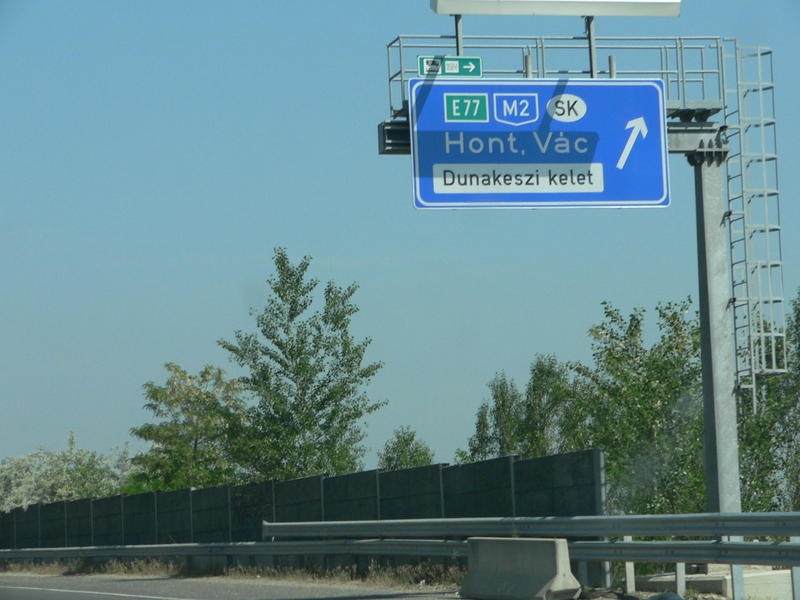 M0 motorway in Hungary, North of Budapest